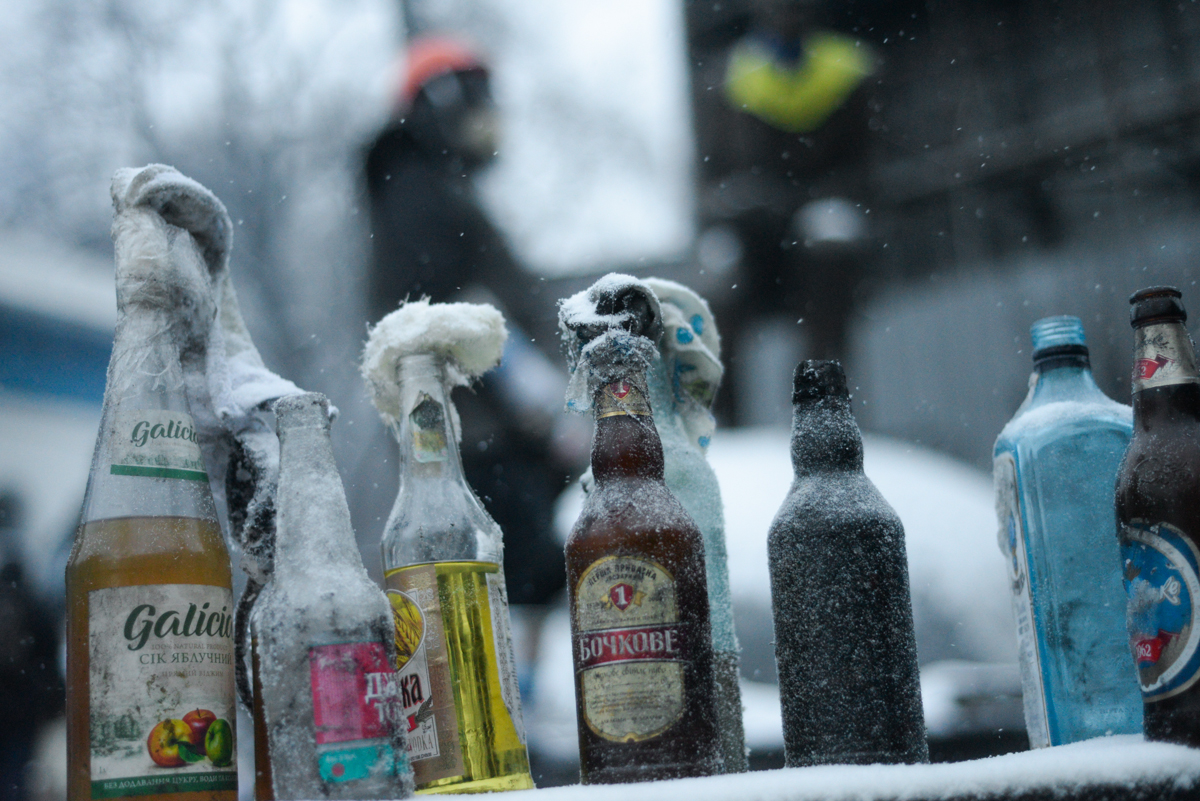 Molotov cocktails prepared in advance by protesters. Euromaidan Protests